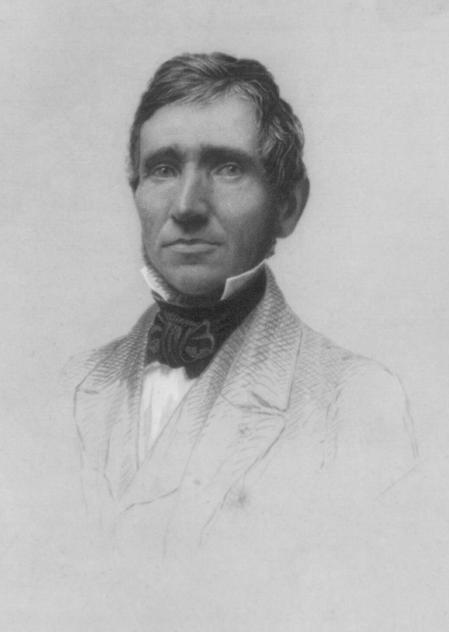 Engraving of Charles Goodyear.